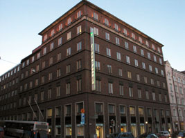 Former Eläke-Fennia headquarters, Fredrikinkatu 57, Helsinki, Finland. - Photo taken 2003.